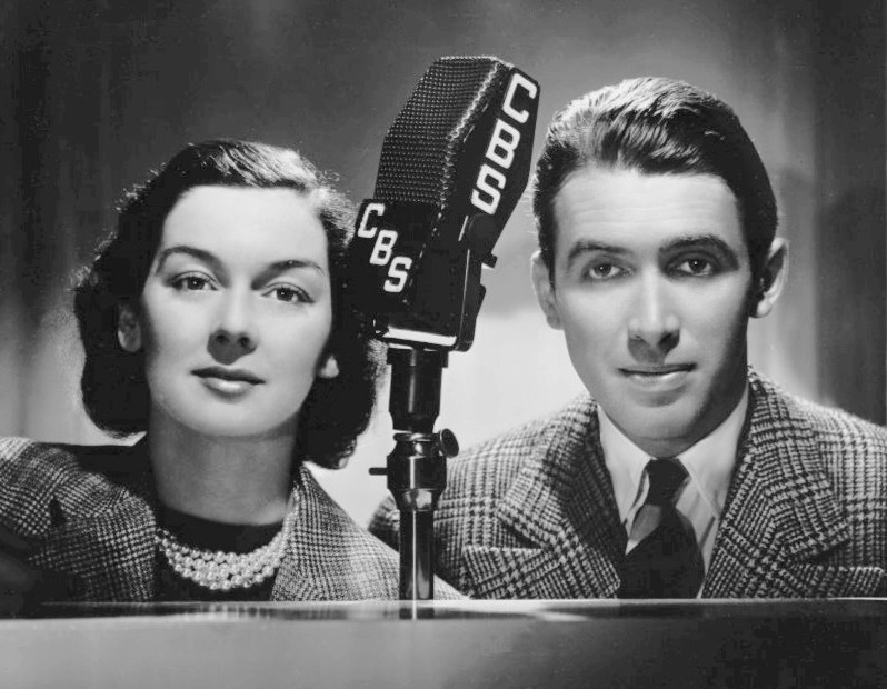 Photo of Rosalind Russell and James Stewart for their performance on Sunday Afternoon Silver Theater.